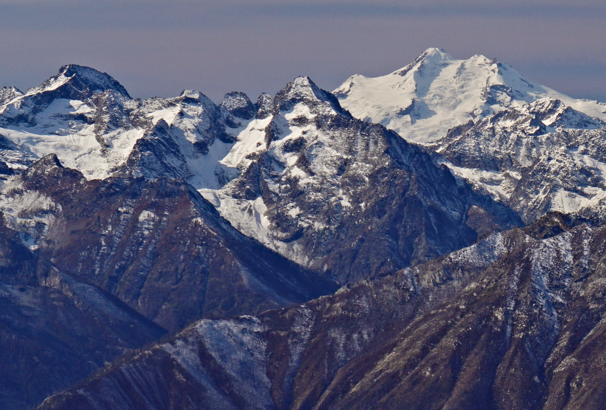 Panorama with Mt. Fernow, Copper Peak, Glacier Peak